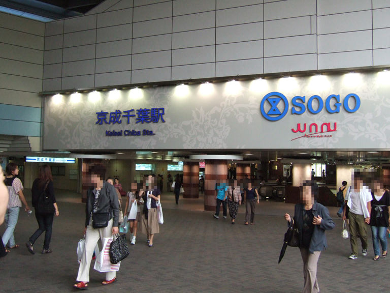 Keisei Chiba station on Keisei Chiba Line. This station is located in Chiba, Chiba.